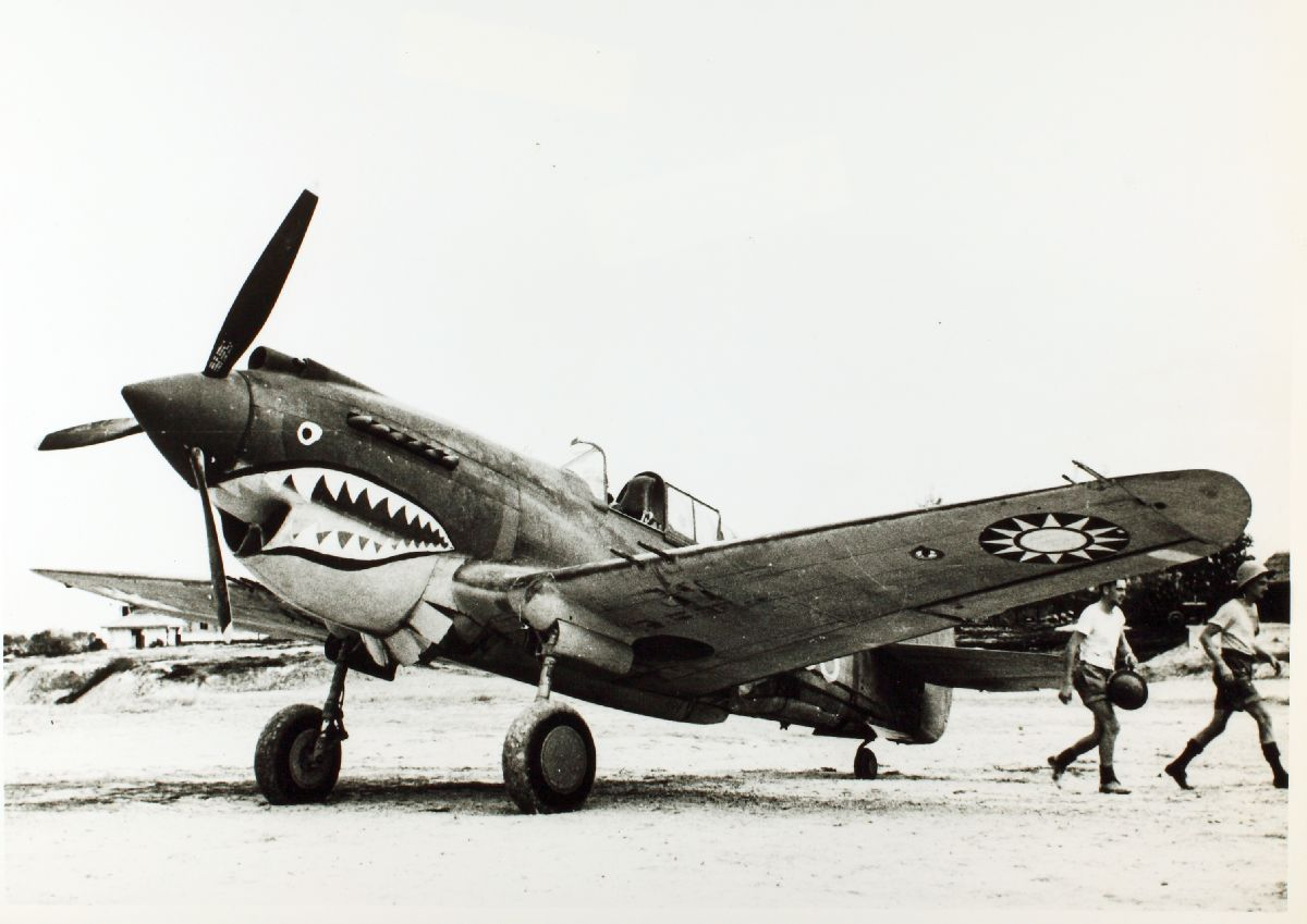 Catalog #: 01_00090561 Manufacturer: Curtiss Designation: P-40C Official Nickname: Tomahawk I (Model H 81-A3) Notes: USA Title: Curtiss, P-40C, Model H 81-A3 Repository: San Diego Air and Space Museum Archive